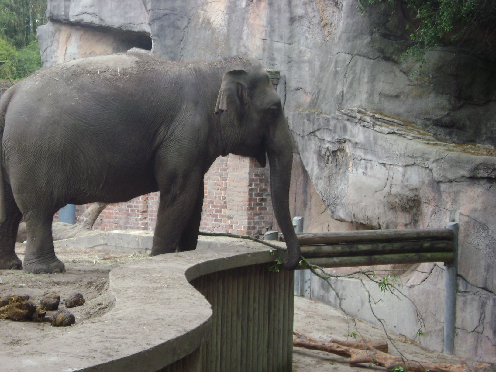 this is one of two elephants at the Audubon Zoo in New Orleans